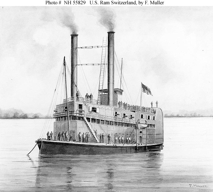 Original caption: "Photo #: NH 55829 U.S. Ram Switzerland (1862-1863), Sepia wash drawing by F. Muller, circa 1900, depicting the ship on the Western Rivers during the Civil War.